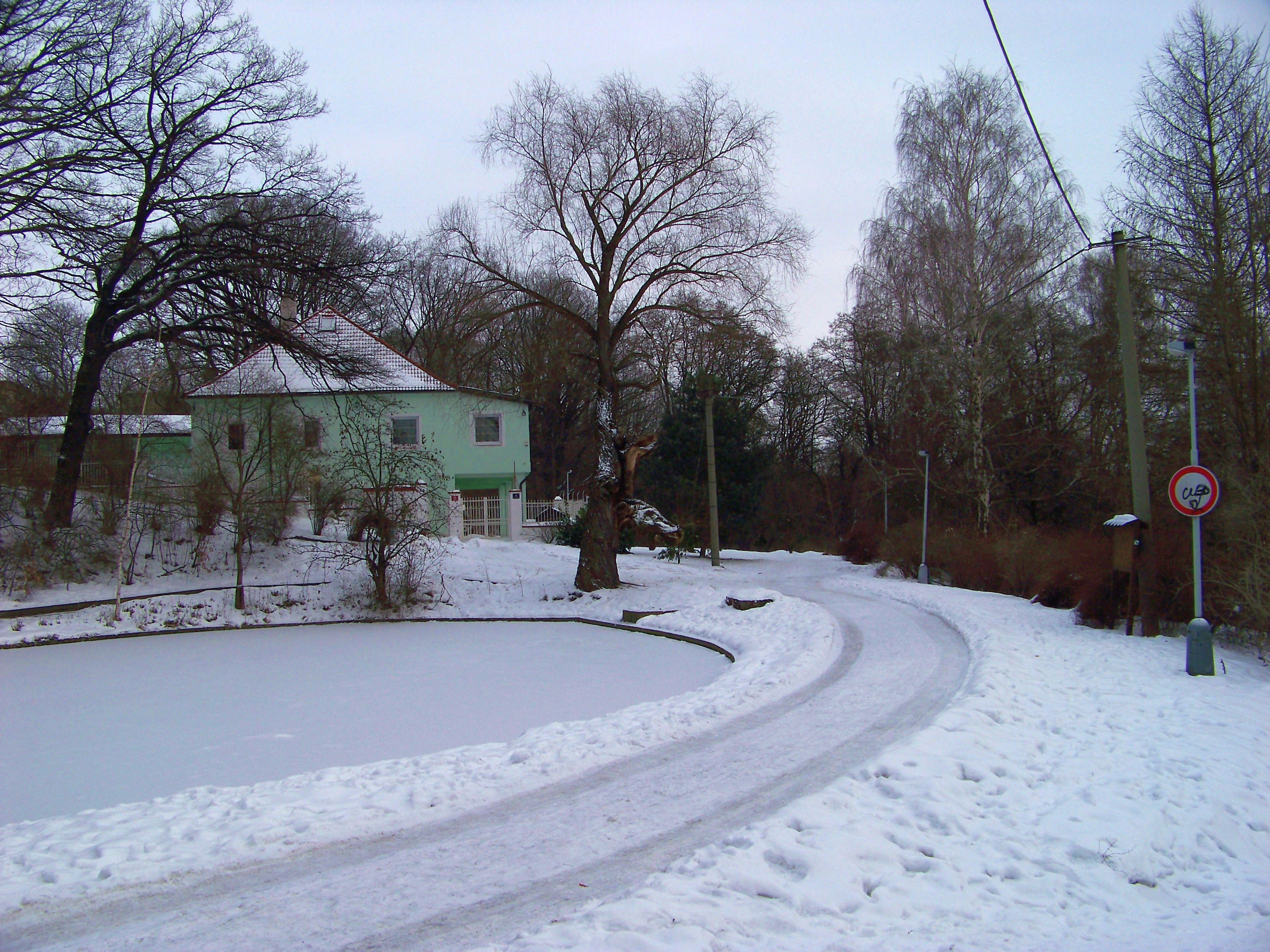 Prague-Prosek, the Czech Republic. Prosek Pond.